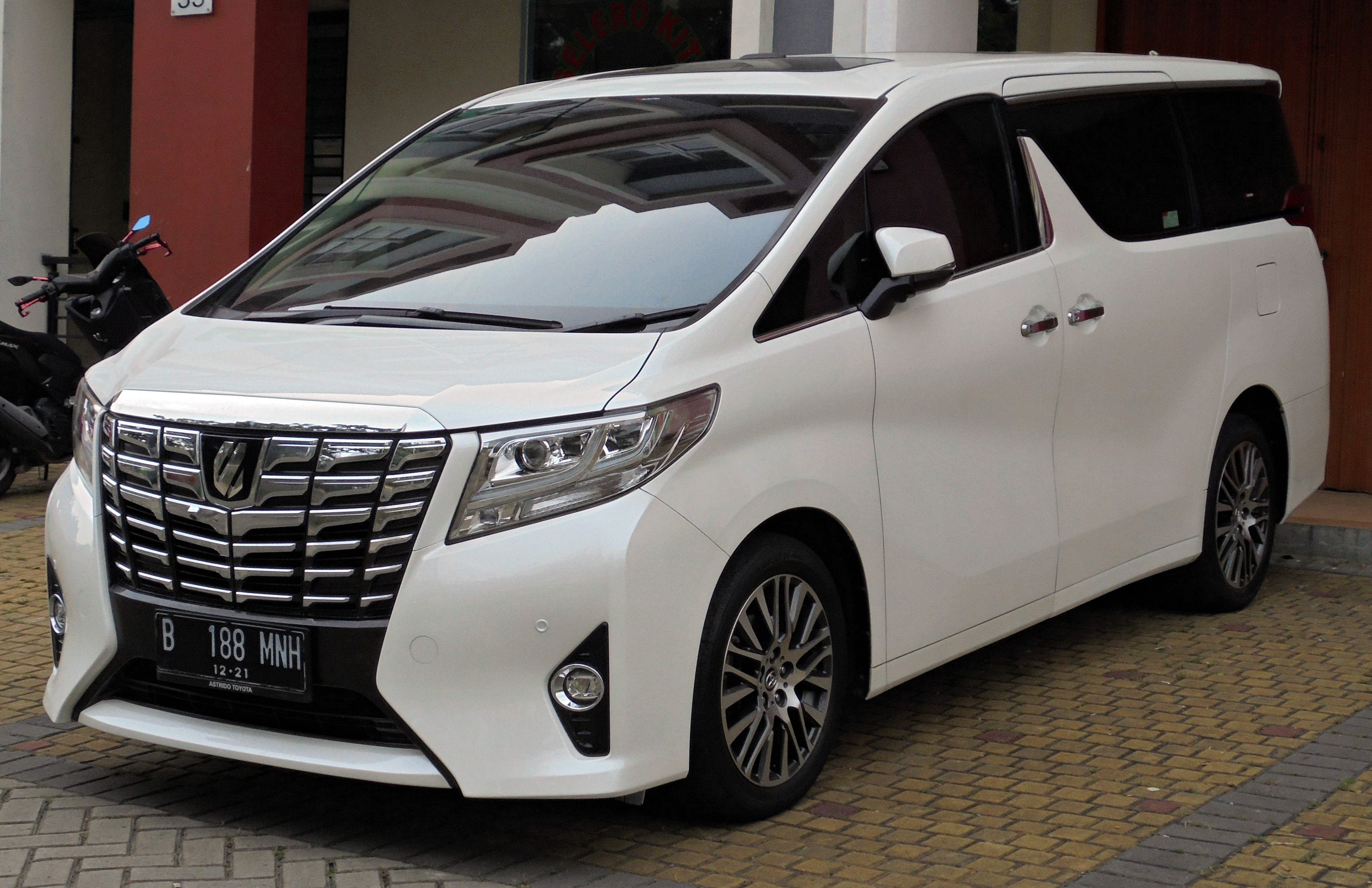 2016 Toyota Alphard 2.5 G van (AGH30R) photographed in South Tangerang, Banten, Indonesia.